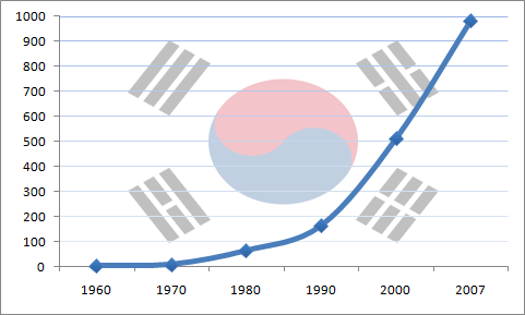 A graph showing South Korea's GDP (nominal) growth from 1960 to 2007. Figures are in billion US Dollars. Graph produced using Microsoft Excel 2007. Transparent flag of South Korea in the background derived from Wikimedia Commons. All data sourced from NationMaster.